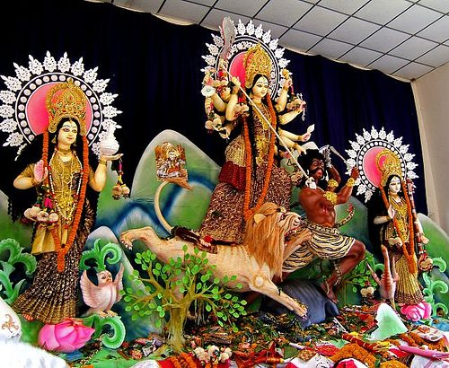 Maa Durga